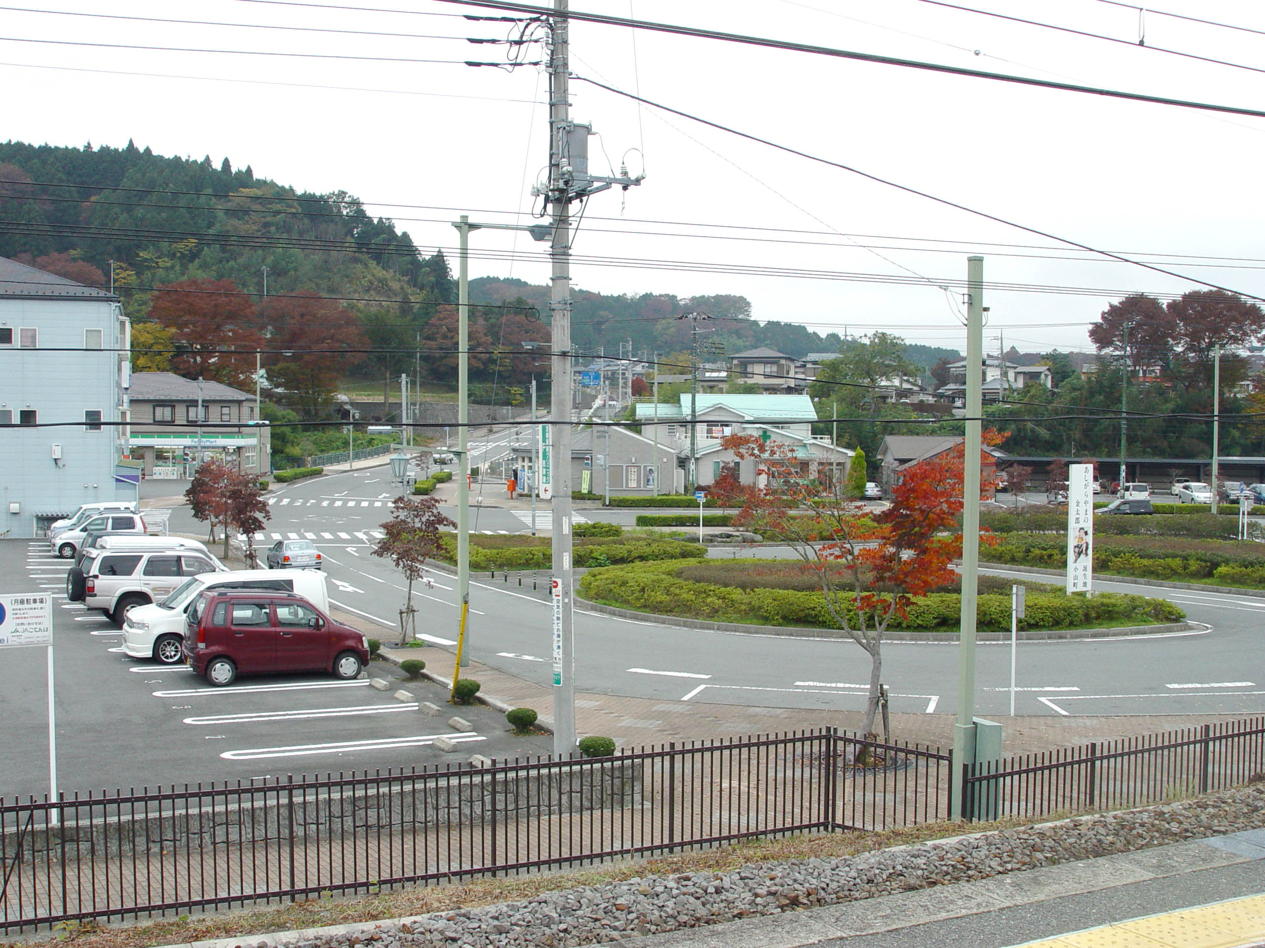 Ashigera Station, Gotenba Line, Japan